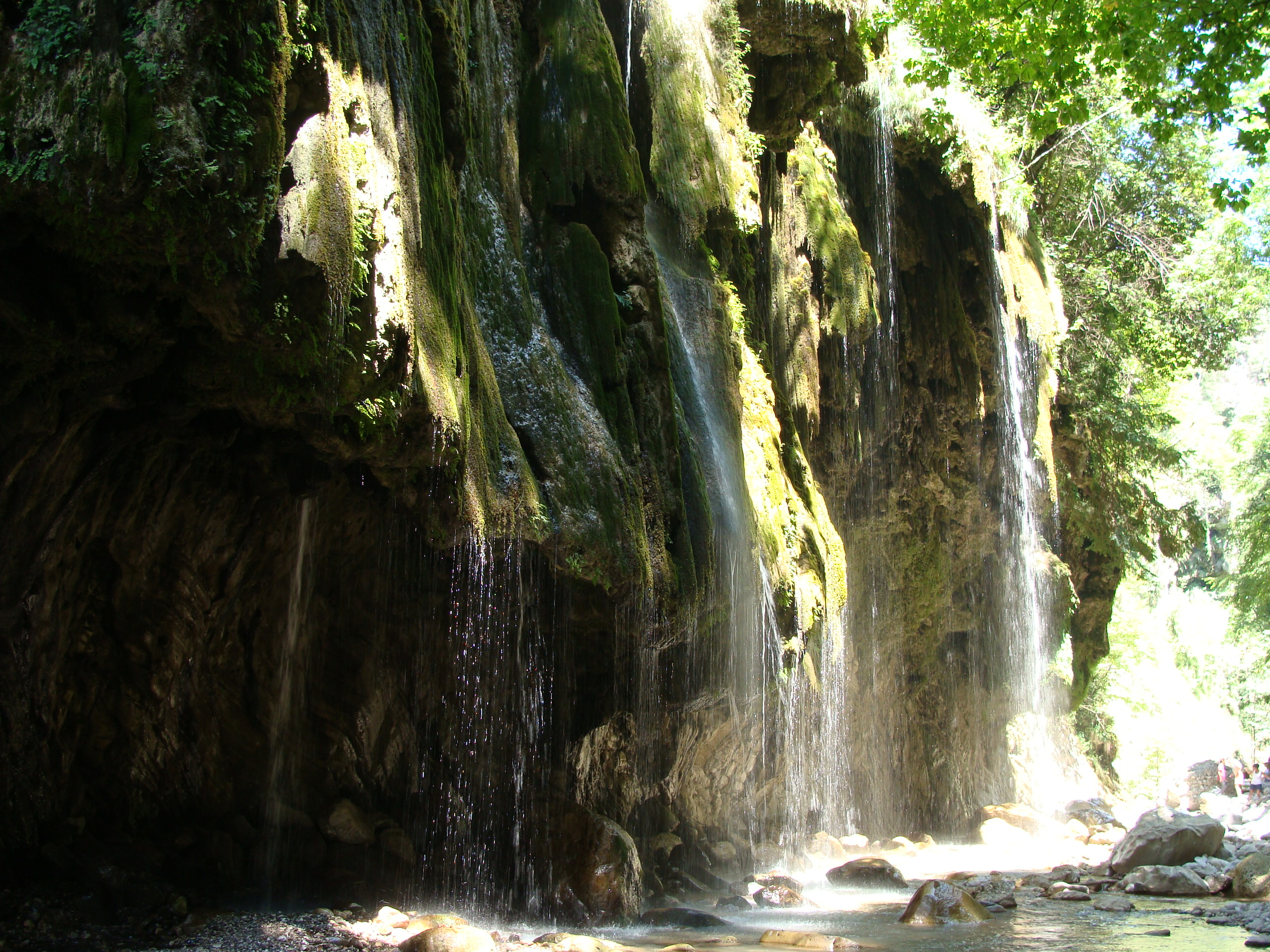 Pantavrechi gorge in Evritania prefecture, Greece